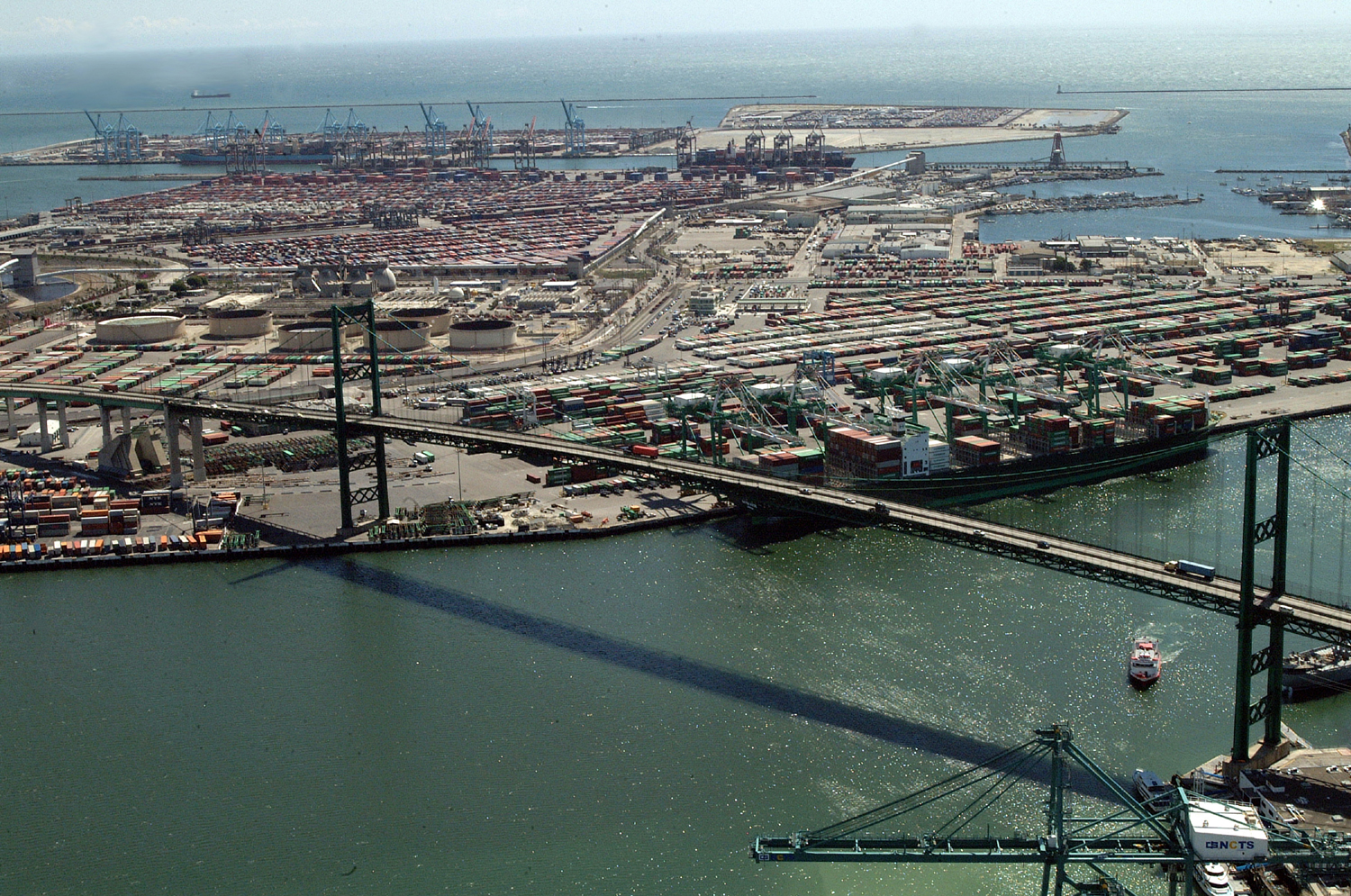 Aerial view of the Vincent Thomas Bridge and the Port of Los Angeles